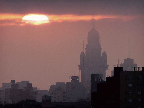 Sunset in Montevideo, Uruguay.